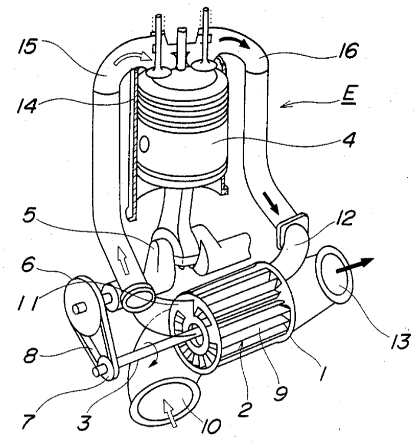 US patent 4,563,997 Fig. 1 1 Rotor housing 2 Rotor 3 Rotary shaft 4 Piston of engine E 5 Crankshaft 6 Crankshaft pulley 7 Rotary shaft pulley 8 Belt 9 Rotor cells 10 Air inlet 11 Air outlet 12 Exhaust gas inlet 13 Exhaust gas outlet 14 Cylinder of engine E 15 Intake passage 16 Exhaust passage E Piston engine E